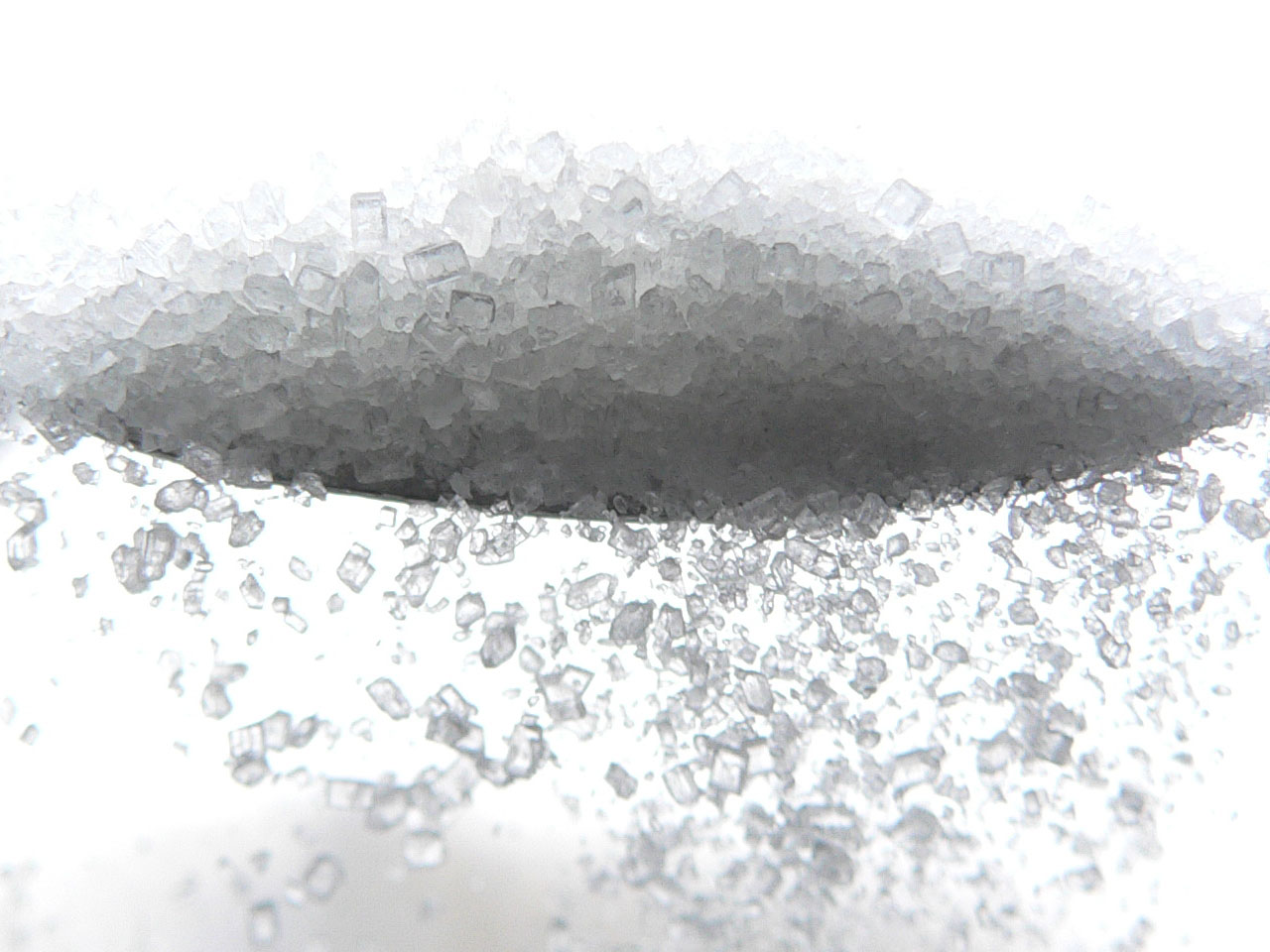 I like the crystals.. View On Black